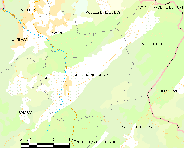 Map commune FR insee code 34243.png - Saint-Bauzille-de-Putois